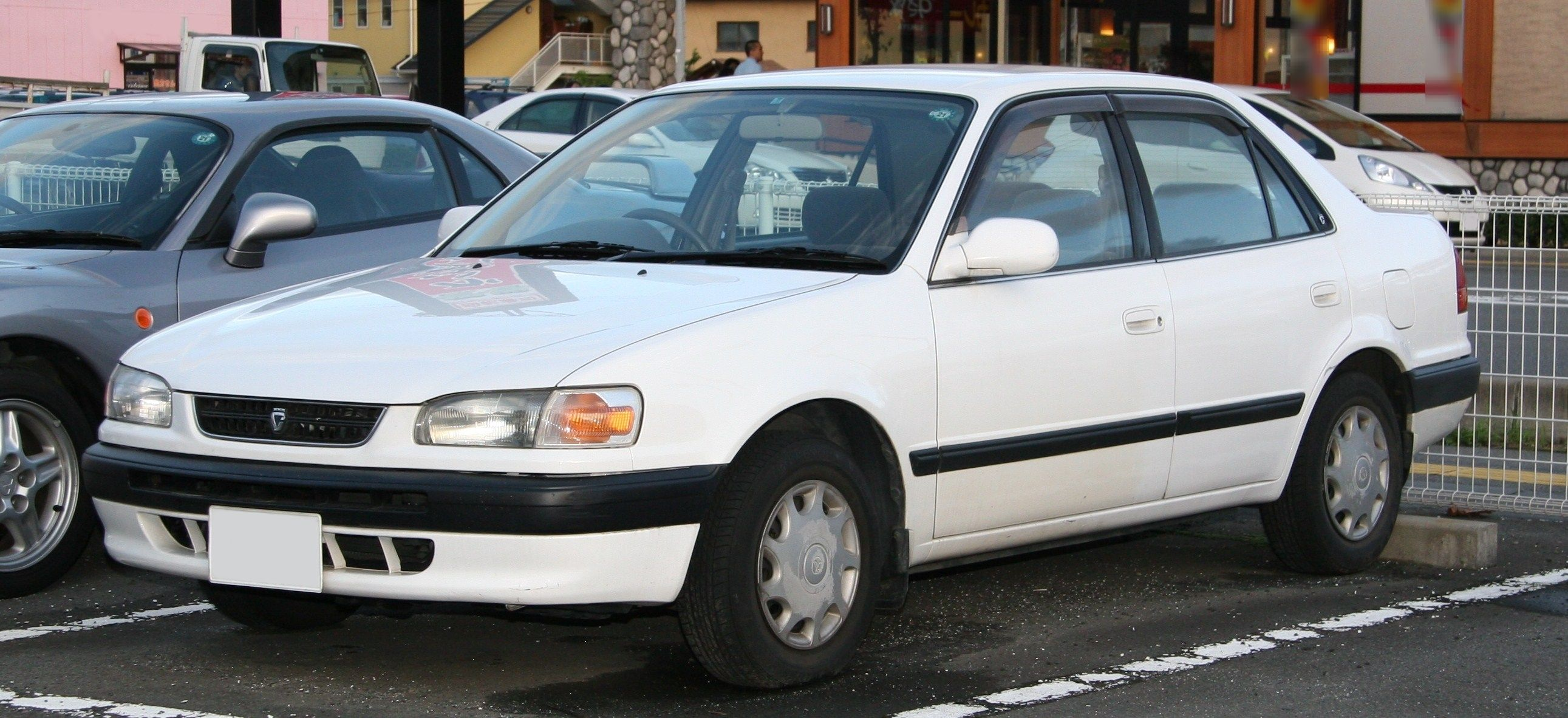 Toyota Corolla in Japan